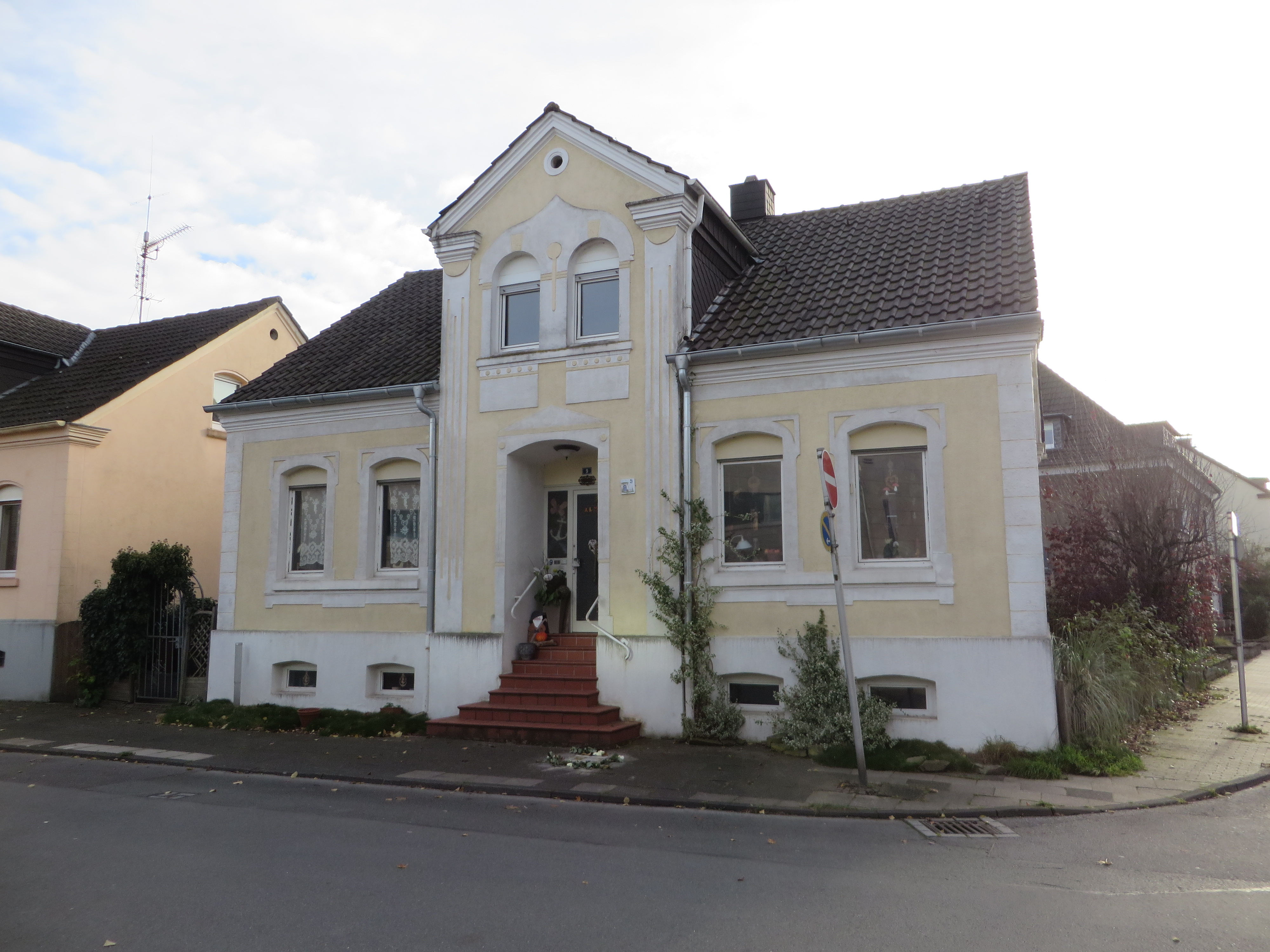 House Gerberstraße 9 in Witten, Germany